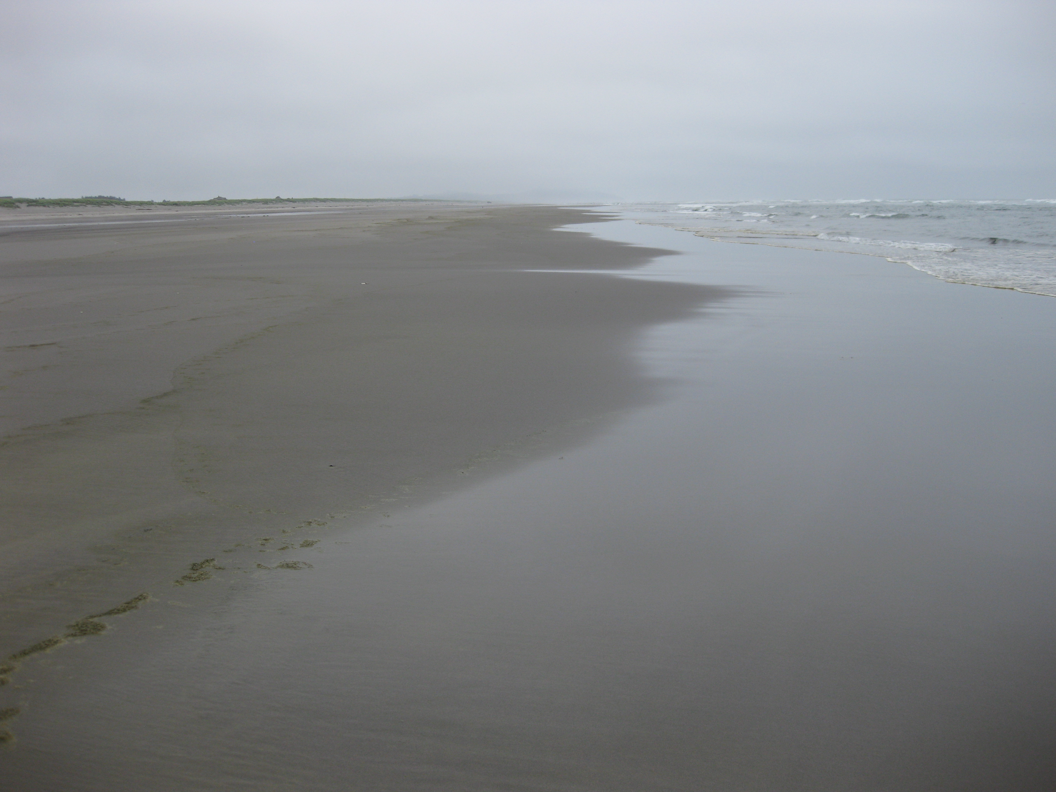 The beach at Long Beach Peninsula, WA, and the Pacific Ocean.